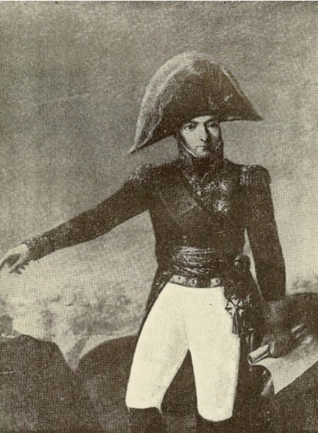 Pierre-Antoine, comte Dupont de l'Étang (1765-1840) was a French general of the French Revolutionary and Napoleonic Wars, as well as a political figure of the Bourbon Restoration.